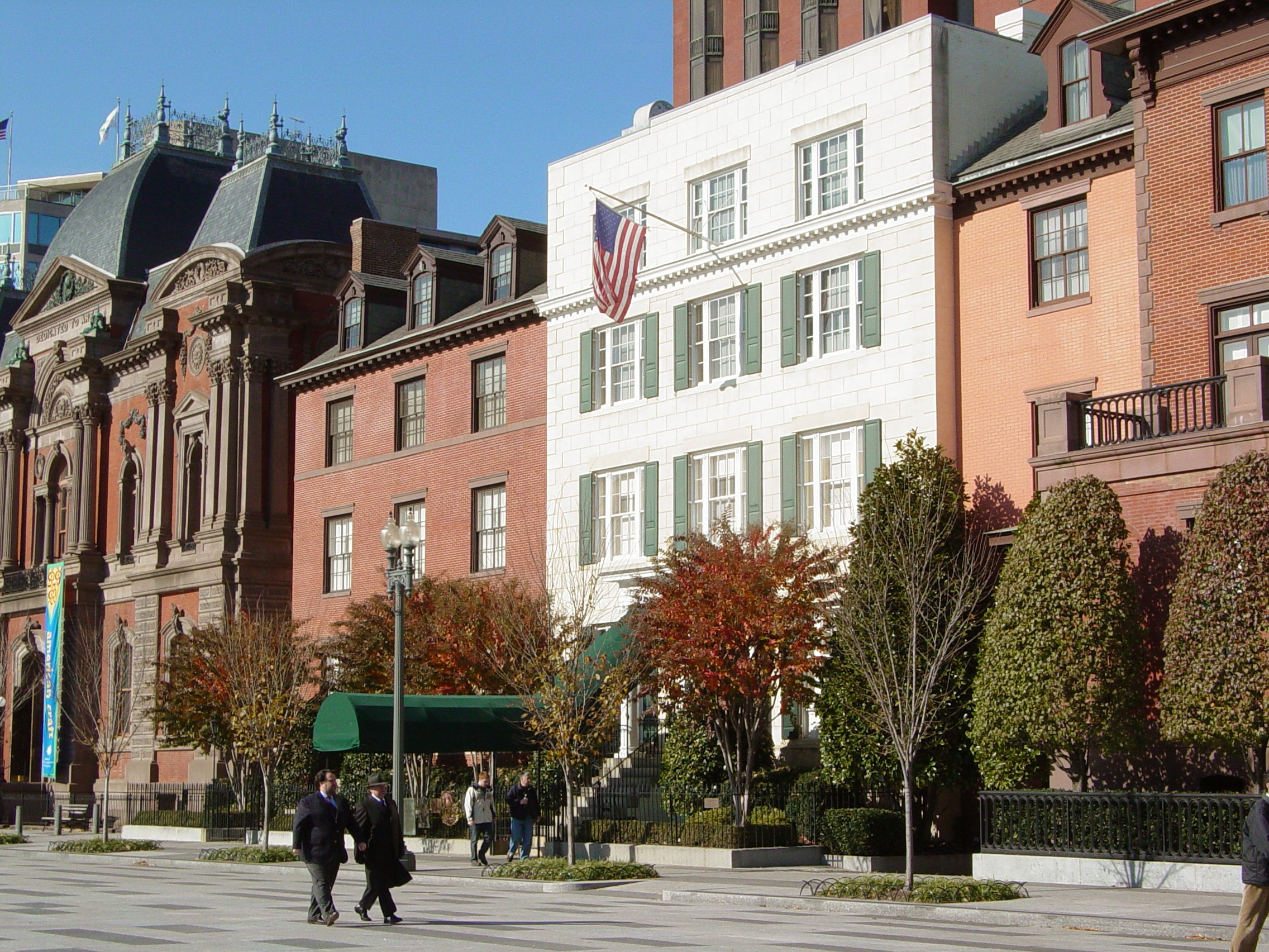 Blair House, the official state guest house for the President of the United States.